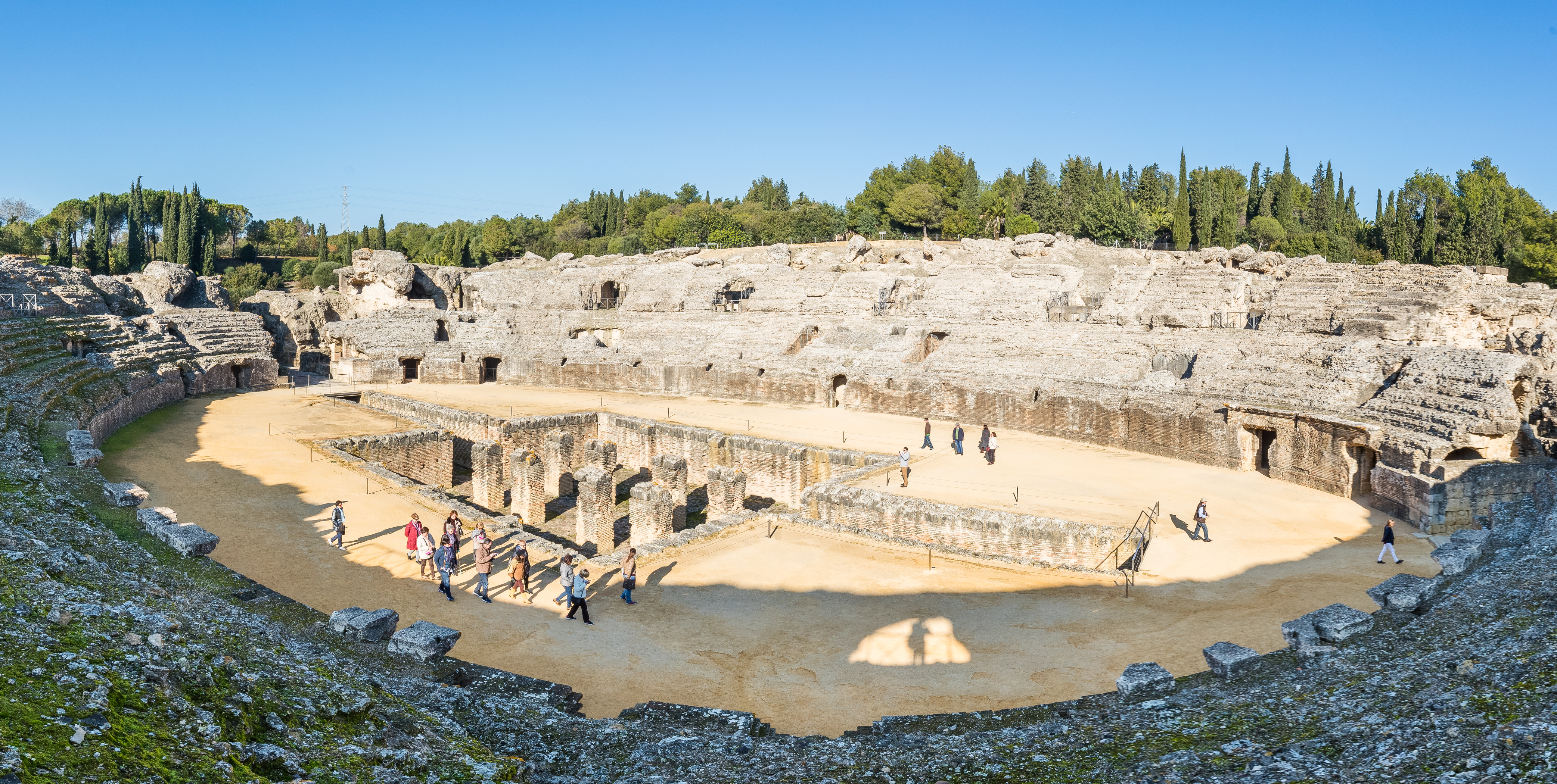 Amphitheater of the ancient roman city of Itálica, Santiponce, Seville, Spain